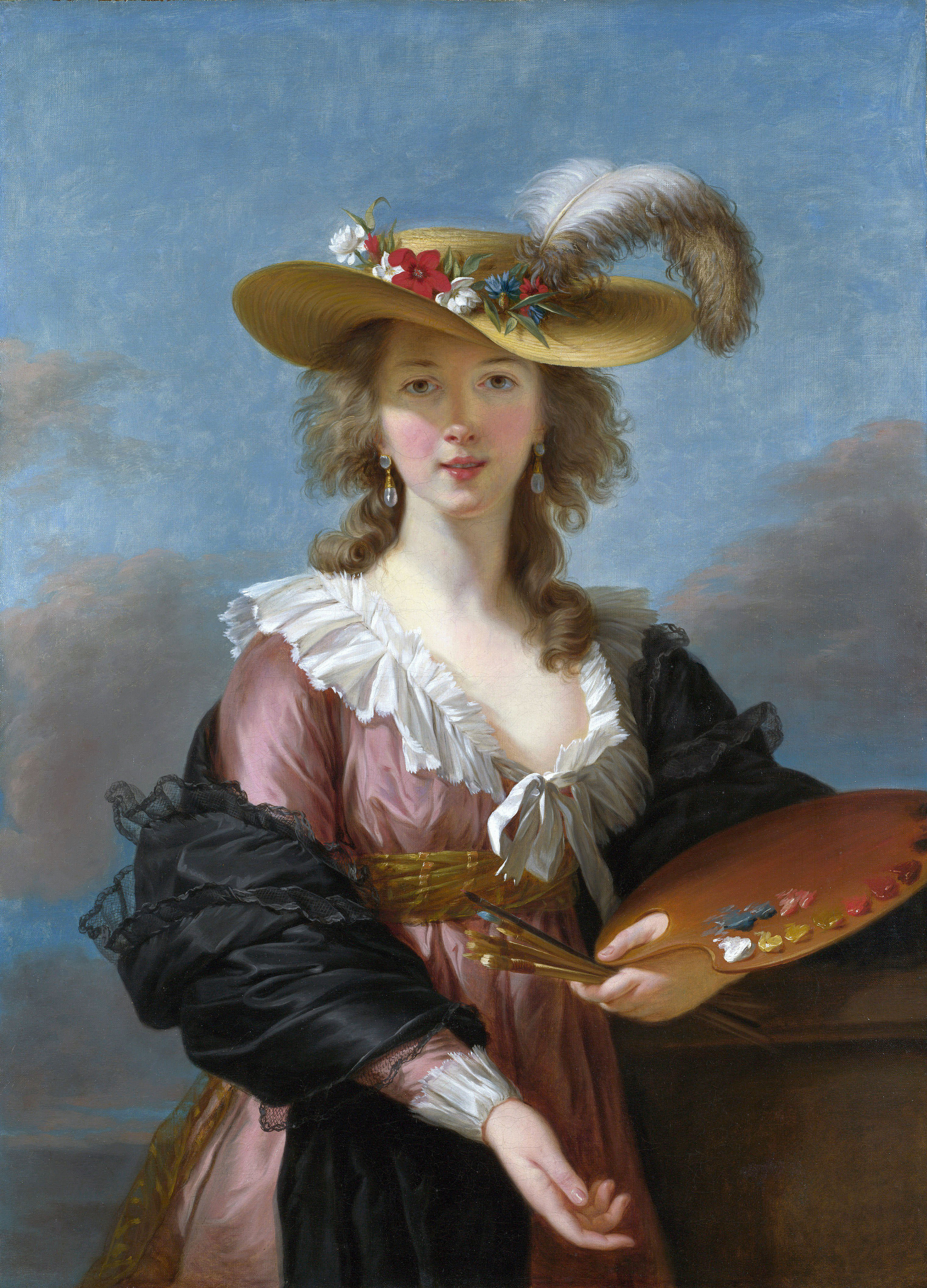 Self-portrait in a Straw Hat